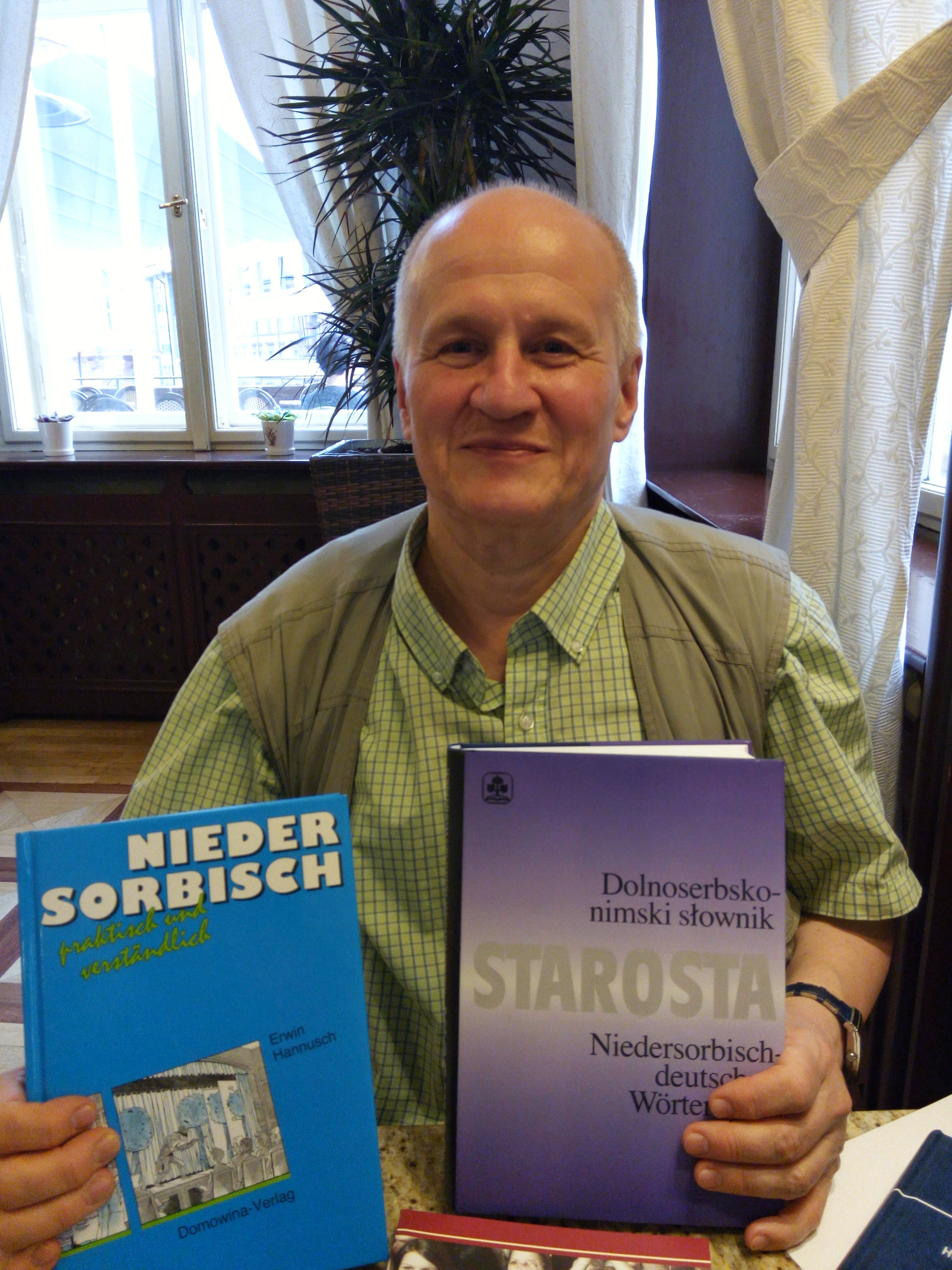 Eero Balk, Finnish translator, writer, Slavist.